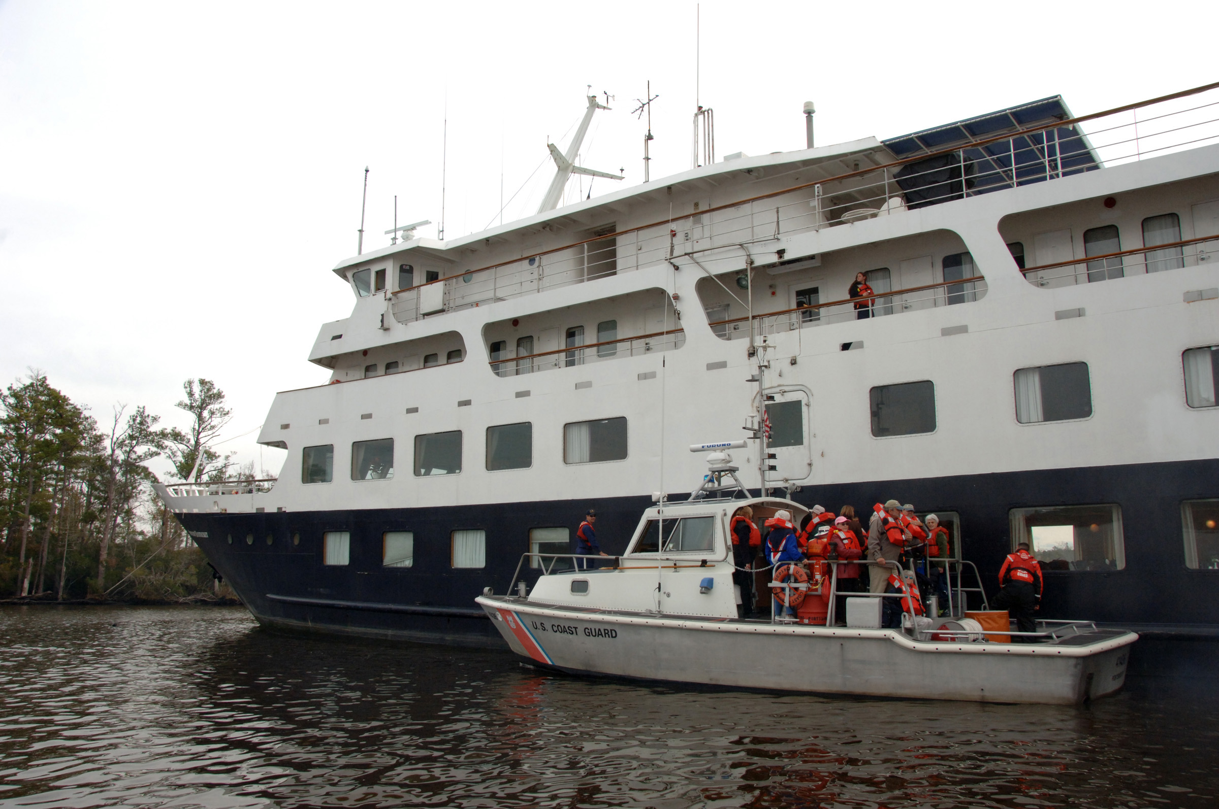 A Coast Guard rescue crew from Station Portsmouth unloads passengers from the cruise ship Spirit of Nantucket after it ran aground in the Atlantic Intracoastal Waterway approximately 8 miles north of the Virginia, North Carolina stateline, Thursday, Nov. 8, 2007.